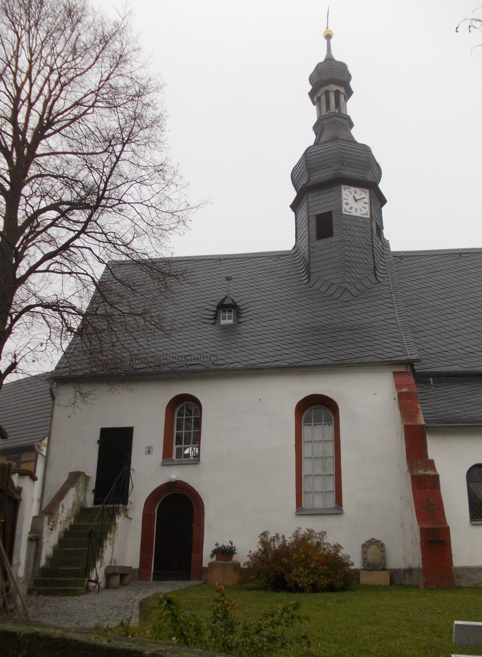 Maltis church (Nobitz, Altenburger Land district, Thuringia)